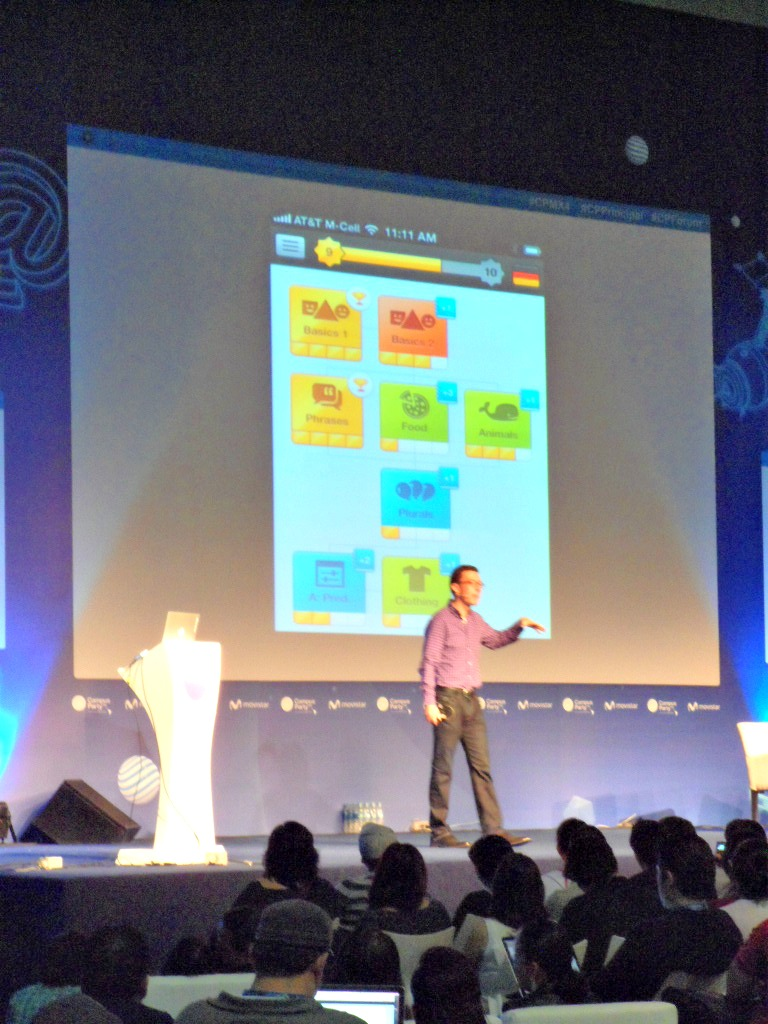 Luis Von Ahn.